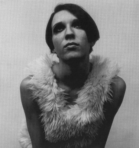 Marcia Moretto, Argentine choreographer